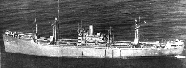 Manderson Victory (AK-230), date and place unknown.